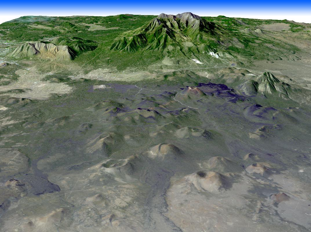 Northern Arizona Volcanoes - This ASTER perspective was created by draping ASTER image data over topographic data from the U.S. Geological Survey National Elevation Data